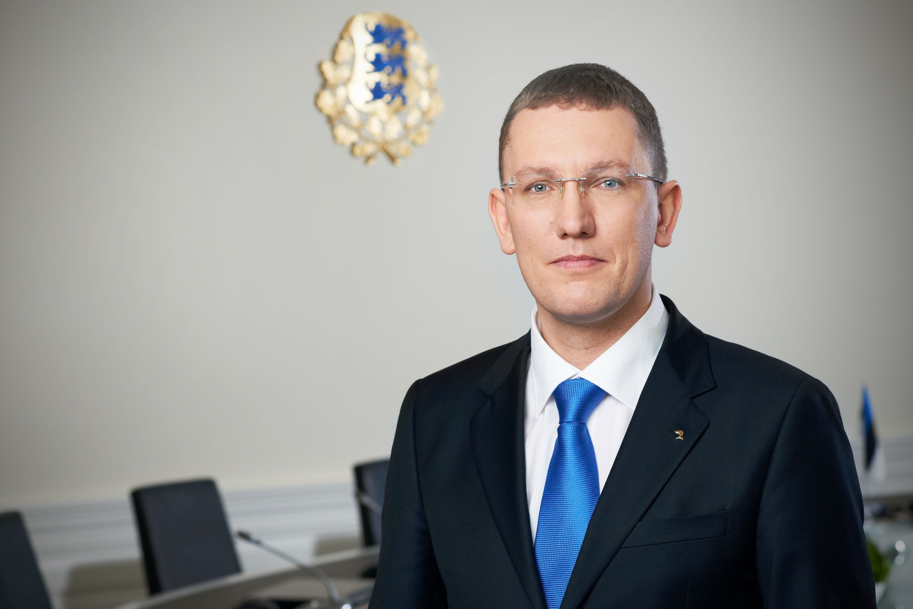 Kristen Michal